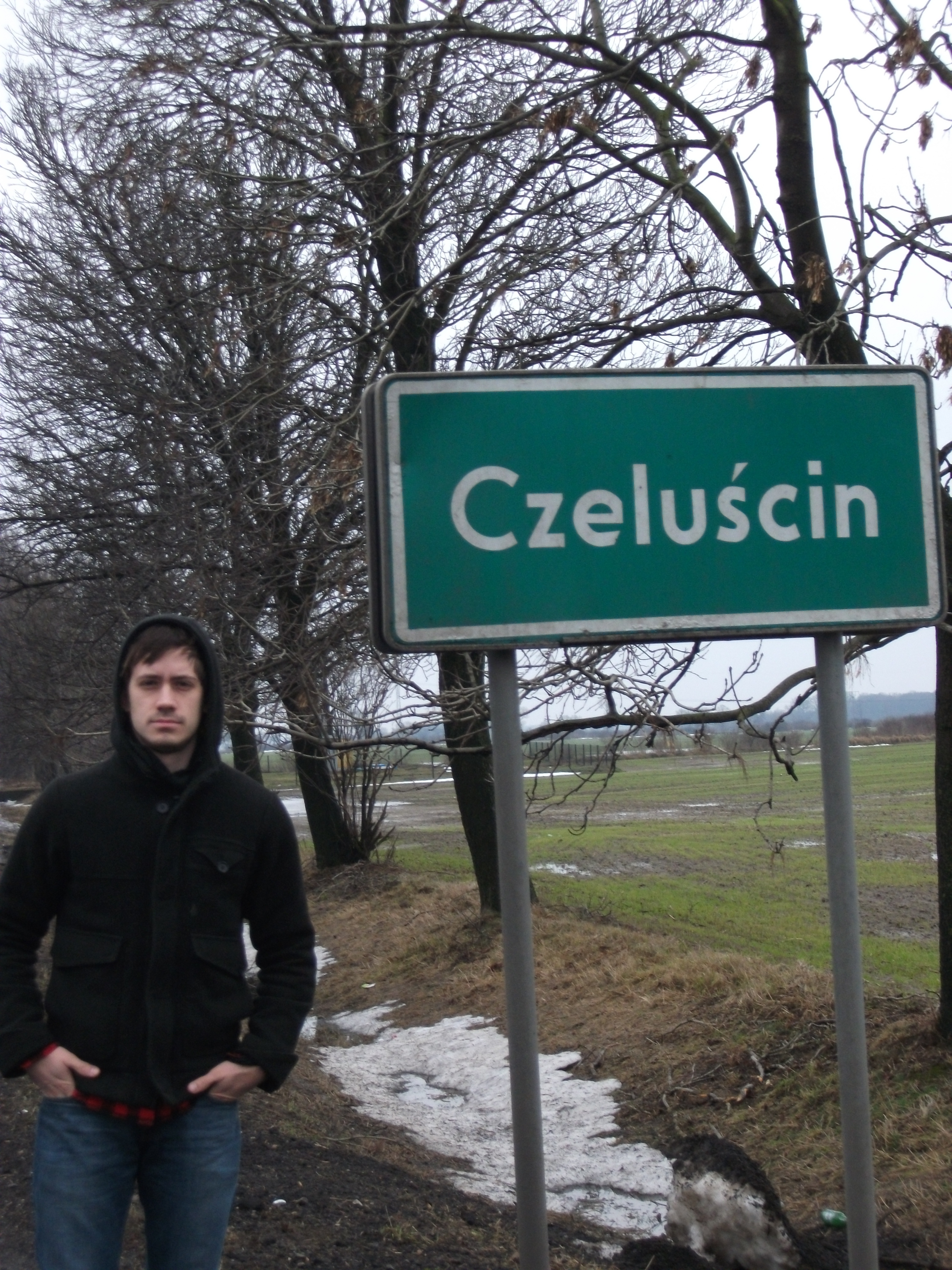 Jacob Czelusta near a sign entering the village of Czeluścin, Poland.